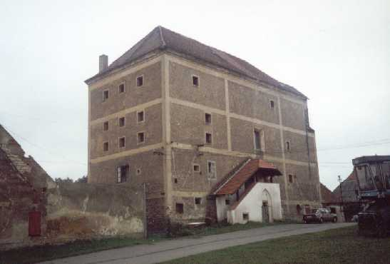 Willage of Litovice, Disctrict Prague-West, Litovice fort